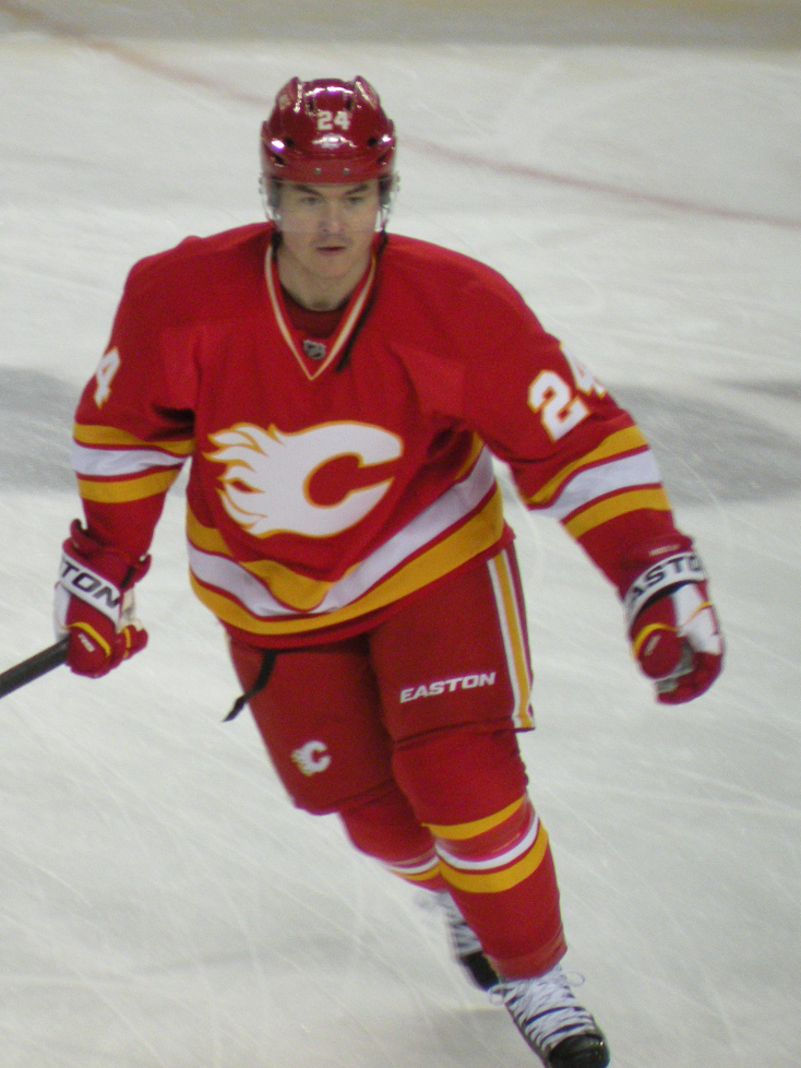 Calgary Flames forward Jiri Hudler prior to a National Hockey League game against the Phoenix Coyotes.